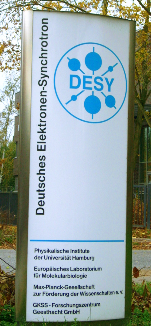 Sign of DESY Deutsches Elektron-Synchrotron near the entrance of the institute at Hamburg, Germany